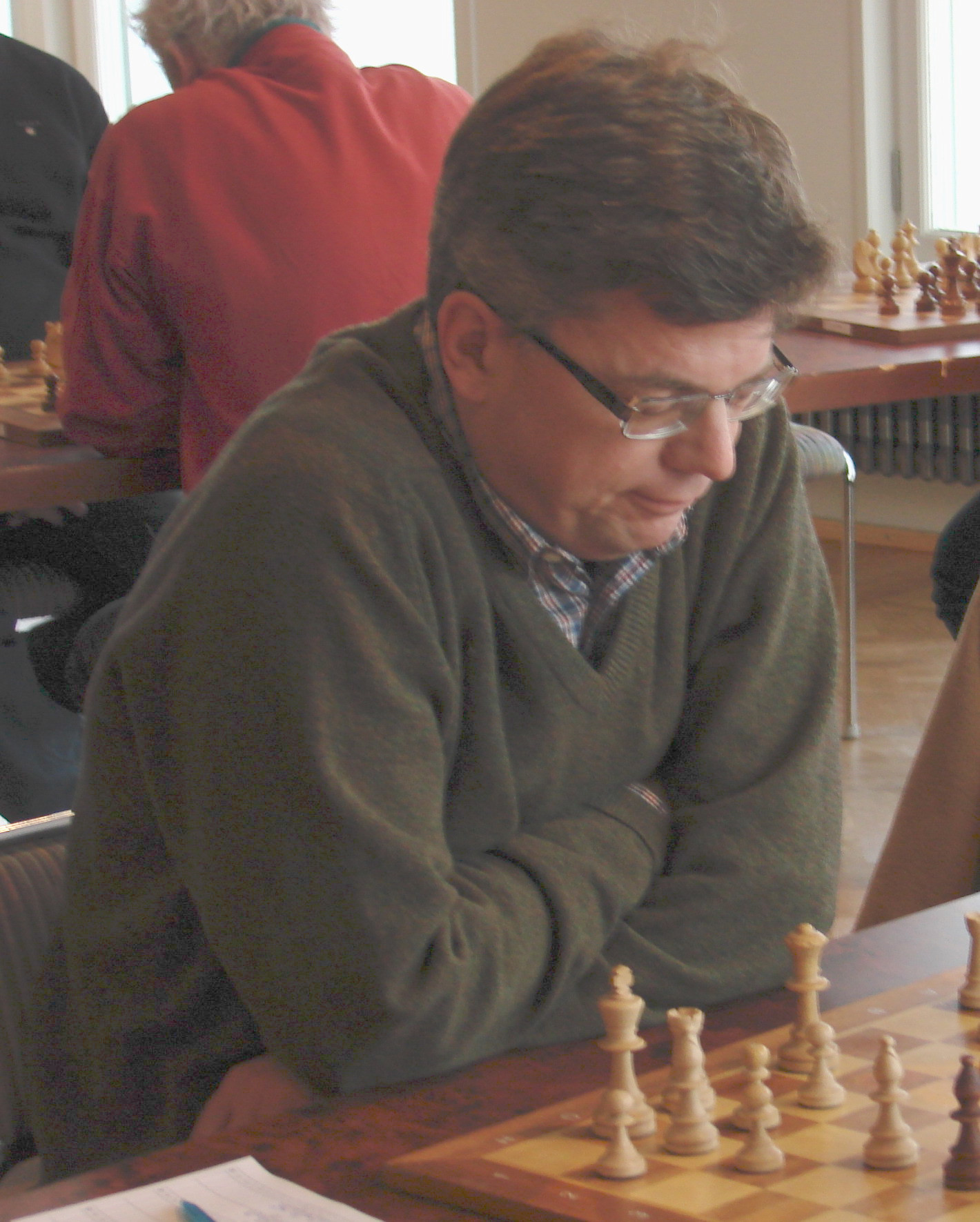 GM Stellan Brynell (Sweden), Rilton Cup Stockholm 2009/10